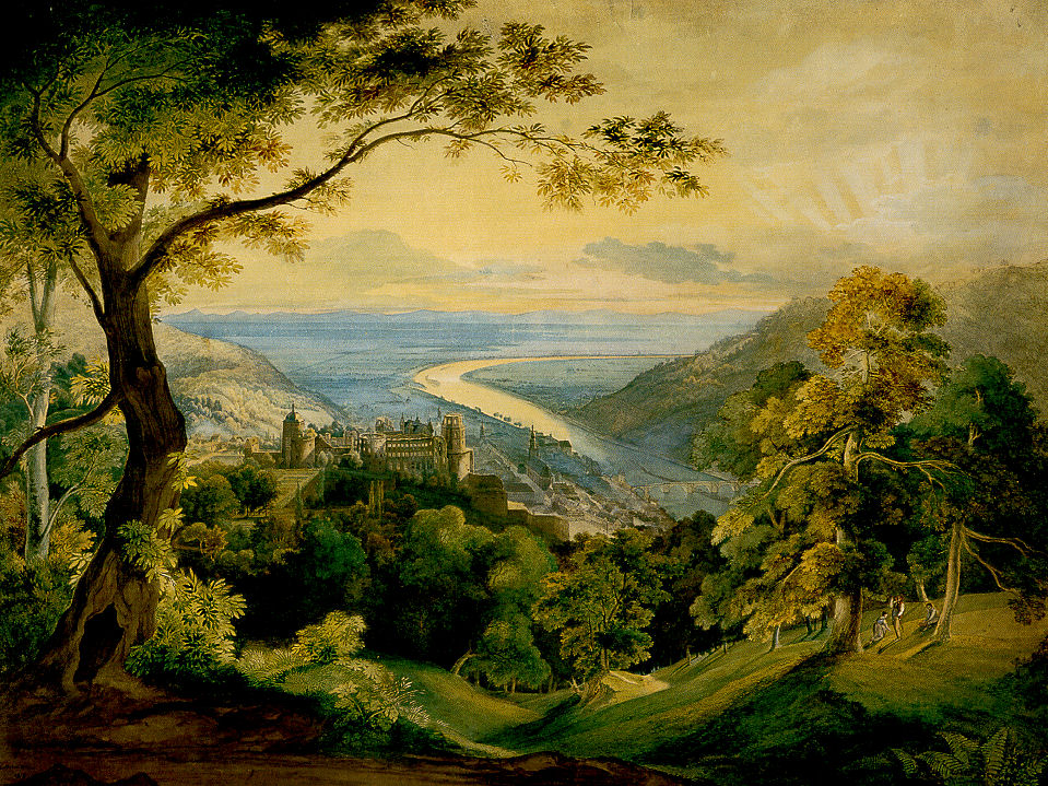 historic views of Heidelberg, Germany